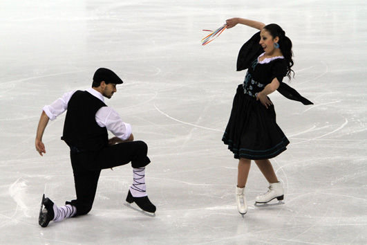 Federica Faiella and Massimo Scali at the the 2010 World Championships.